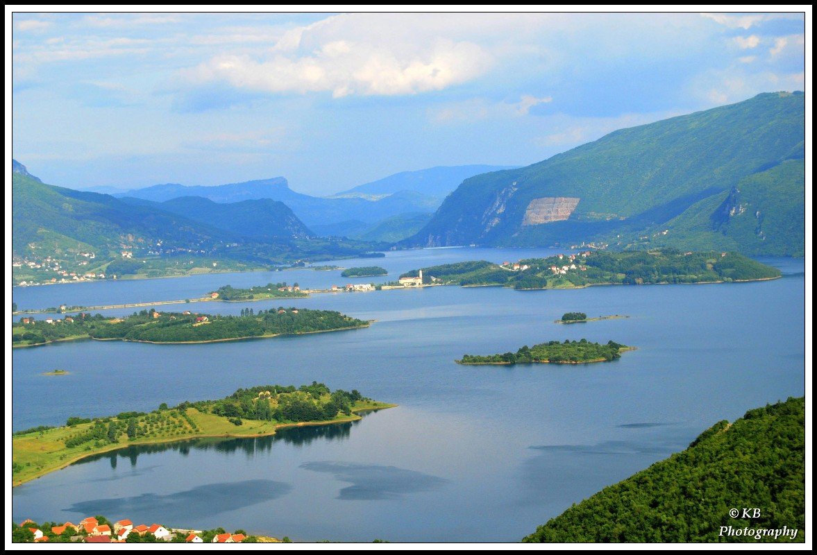 Rama lake